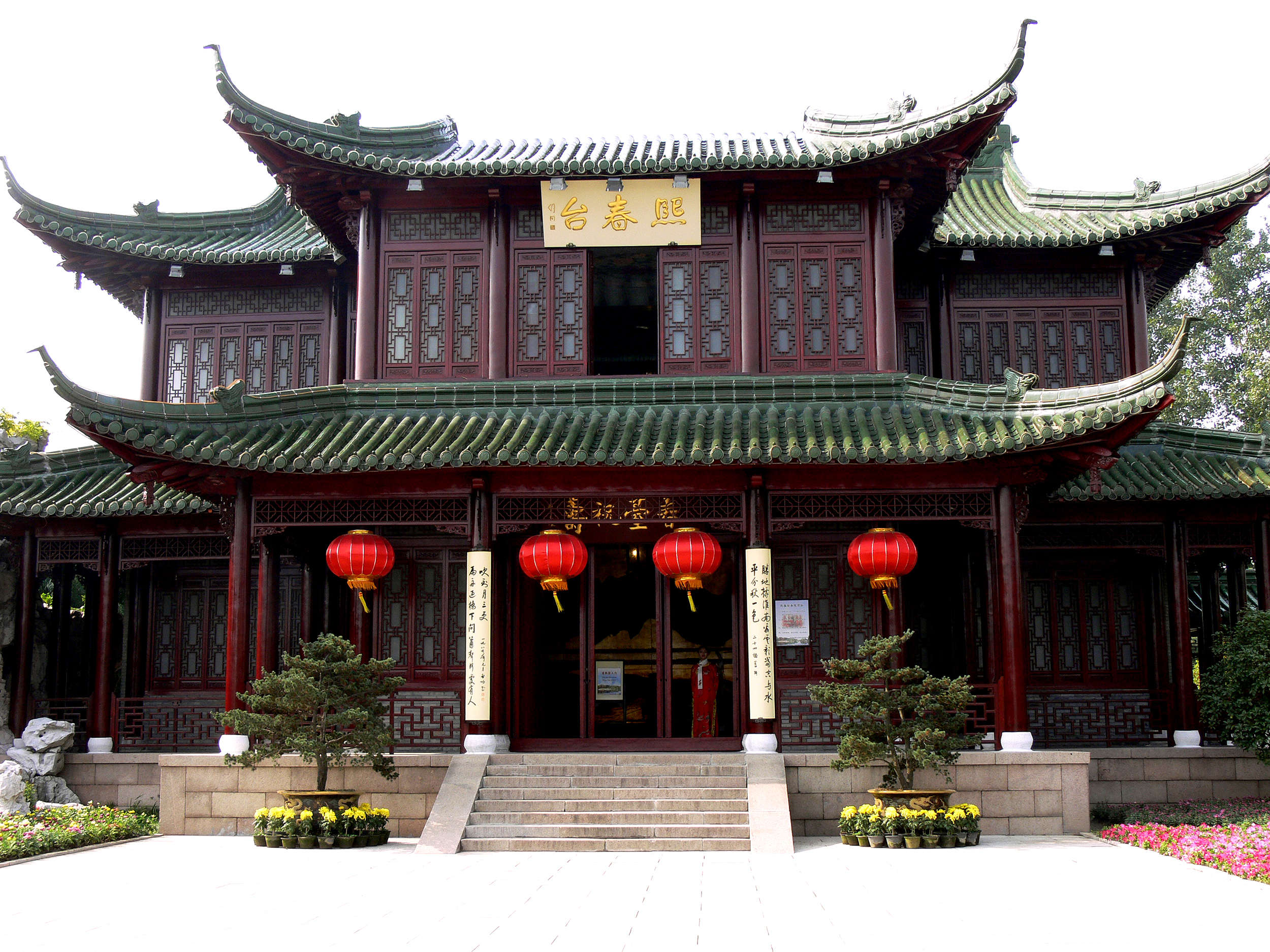 The Sunny Spring Stage of The Thin West Lake, Yangzhou 扬州瘦西湖熙春台